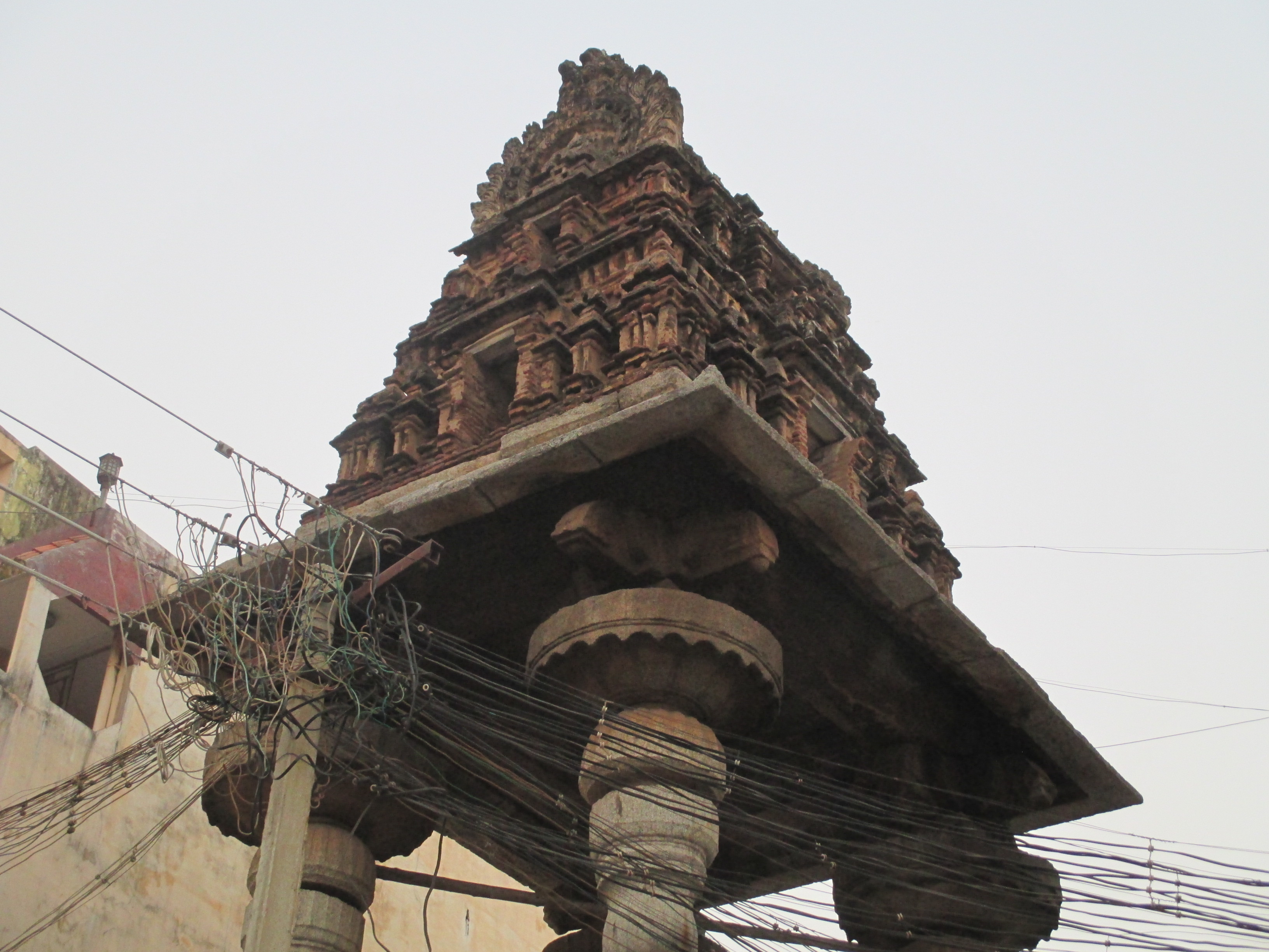 Ulagalantha Perumal Temple, Tirukoyilur